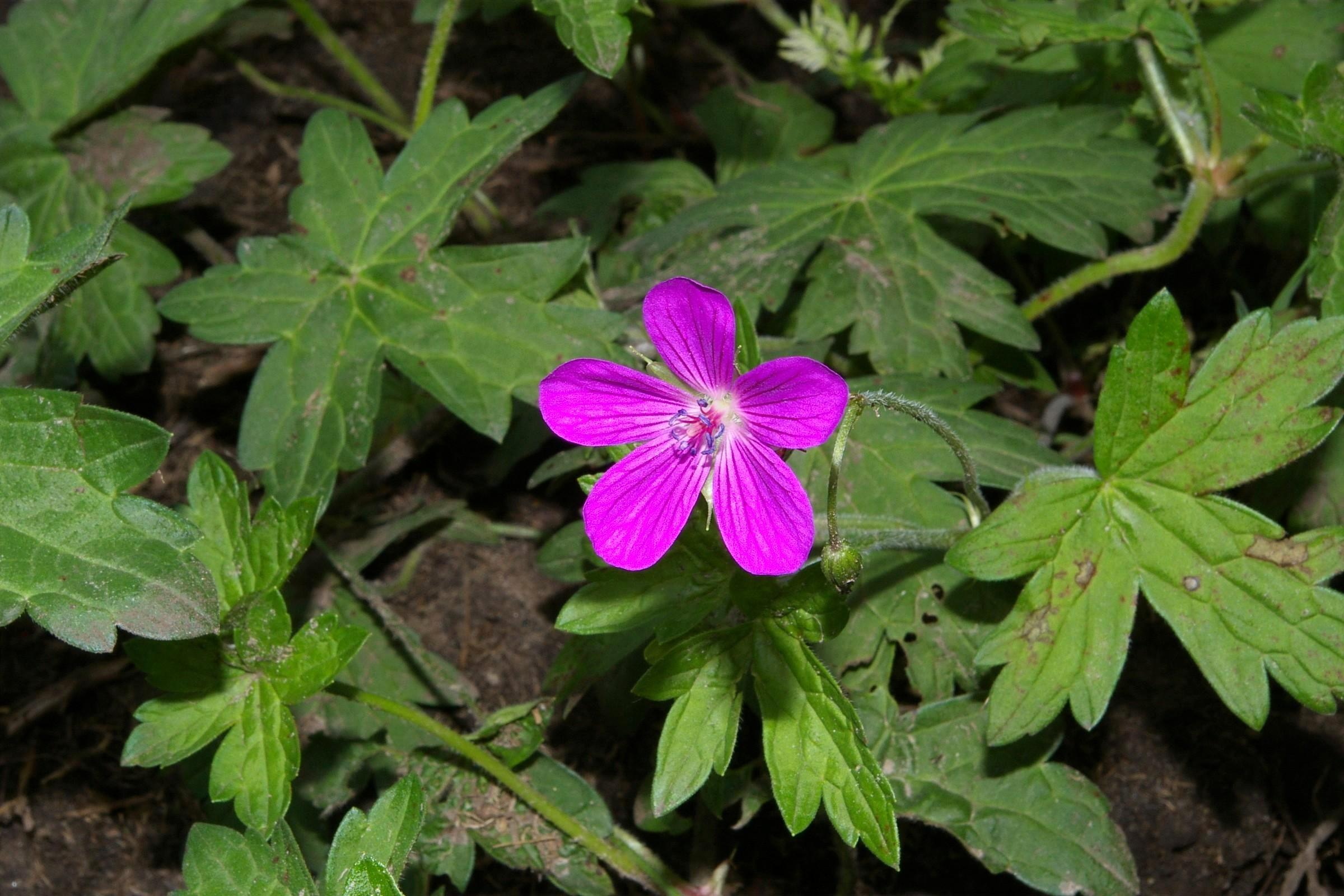 Flowering Geranium palustre.